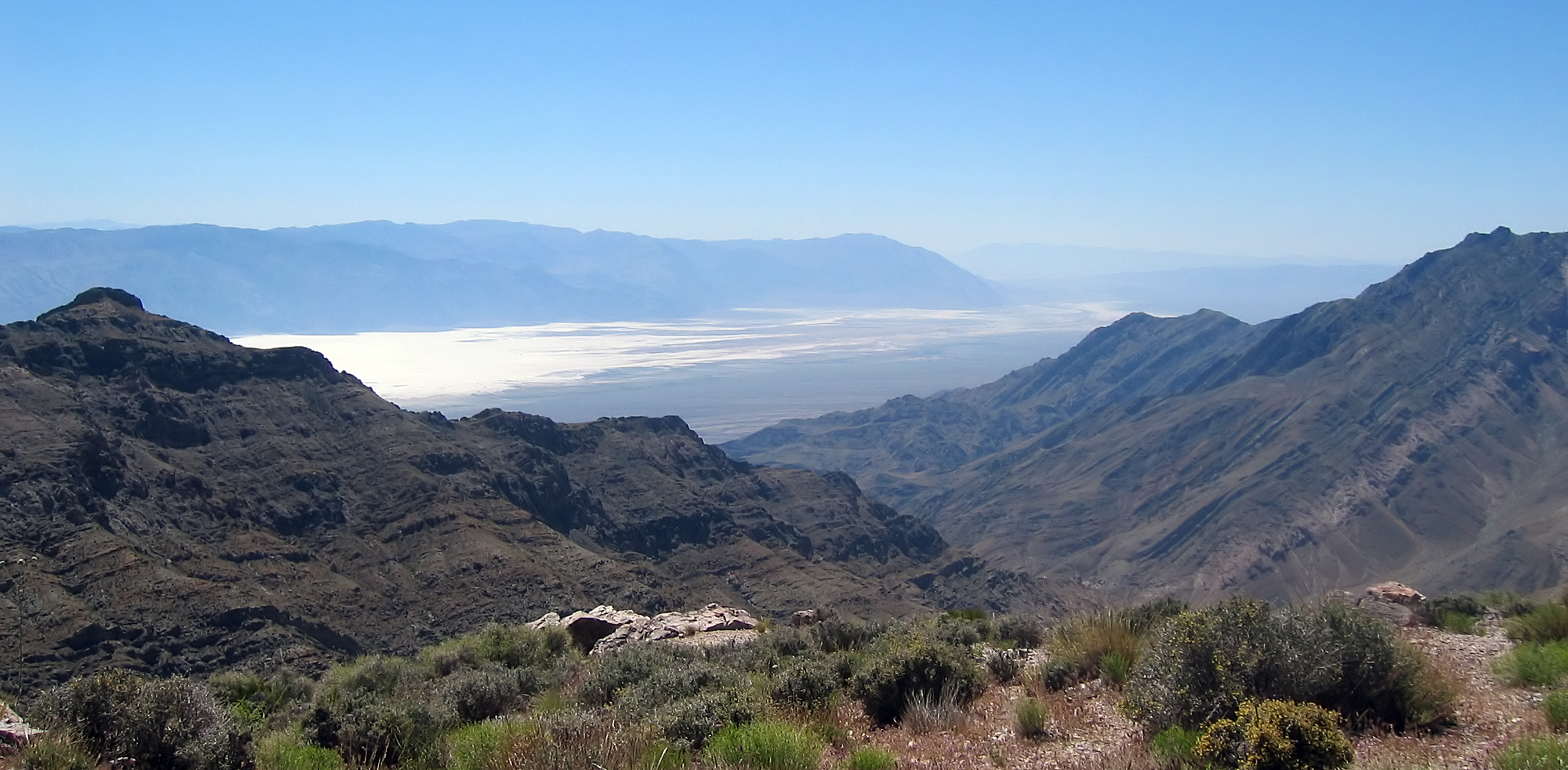 View of Badwater depression (-282'/-86m) from Aguereberry Point (+6443'/+1916m), Death Valley National Park, California, USA